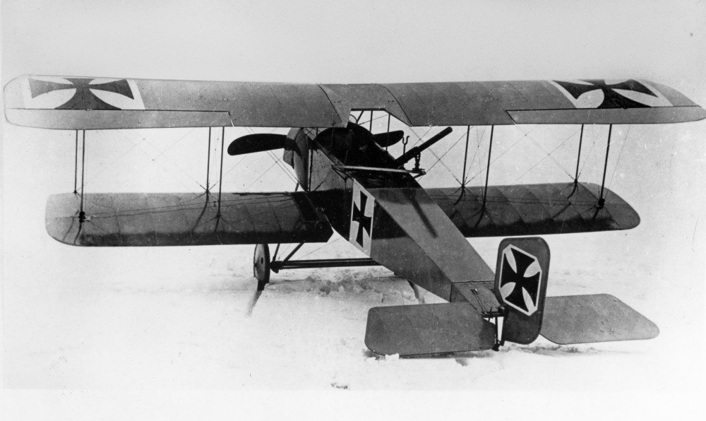 Halberstadt C. I on a snow covered runway during WWI. Image from San Diego Air and Space Museum